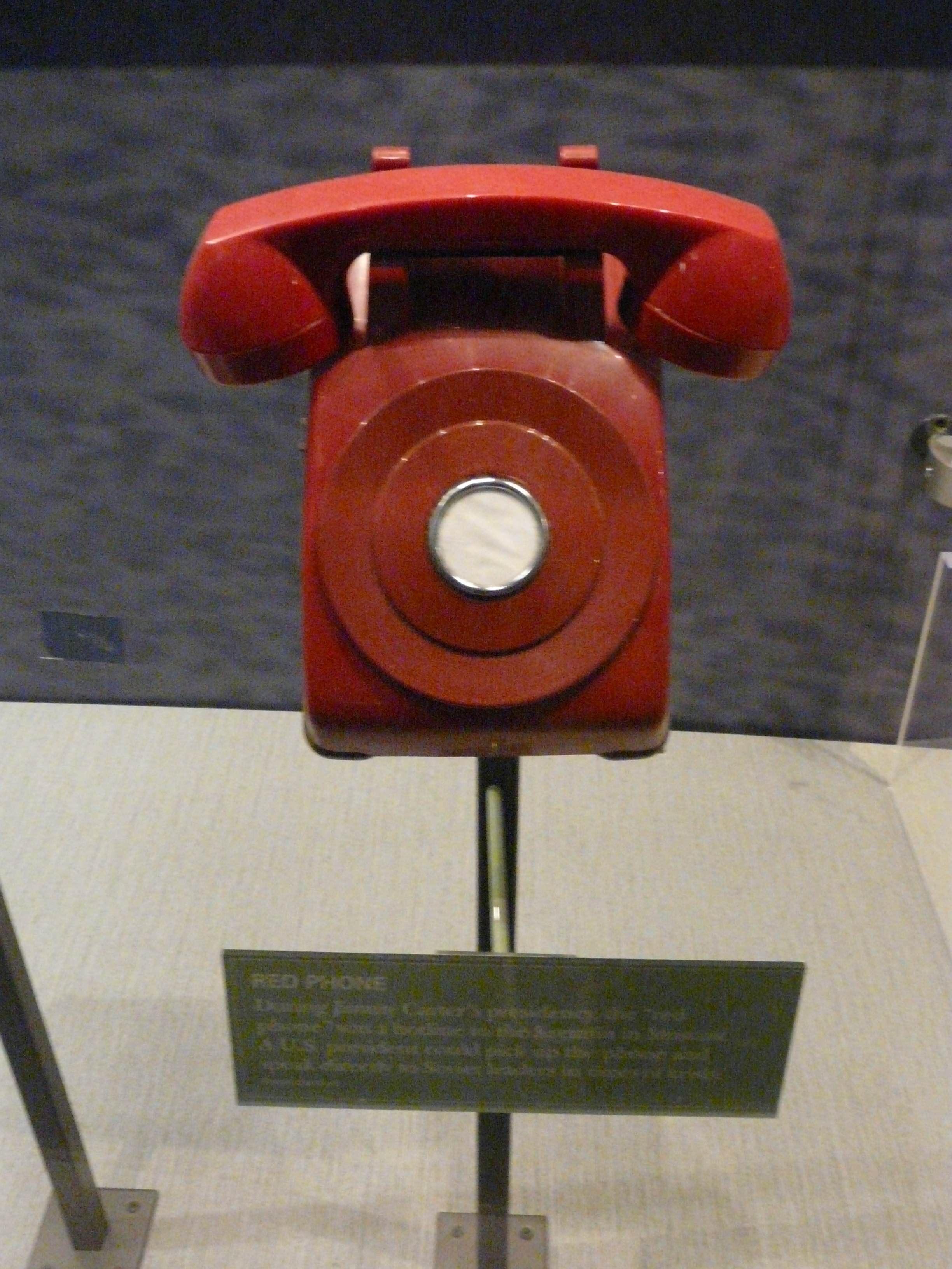 "Red Phone" Moscow–Washington hotline from the Carter Administration White House. On display at the Jimmy Carter Library and Museum Please note: Contrary to popular belief, this red phone was NOT used for the Washington-Moscow Hotline. The Hotline was a teletype and later a facsimile link, it never was a phone line. According to this article the phone in the picture is just a prop, erroneously representing the Hotline. Paul2 (talk) 21:05, 7 September 2013 (UTC)